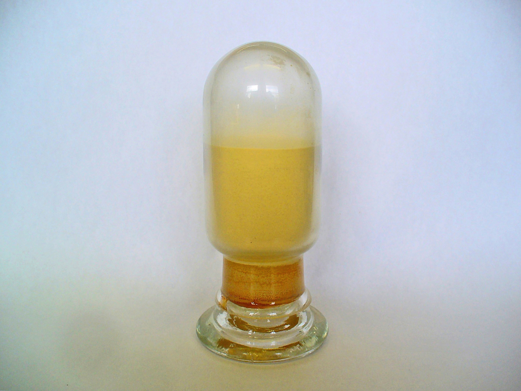 Lycopodium clavatum, Lycopodiaceae, Wolf's-foot Clubmoss, Stag's-horn Clubmoss, Groundpine, spores. The minced, fresh spores are used in homeopathy as remedy: Lycium berberis (Lyci-b.)